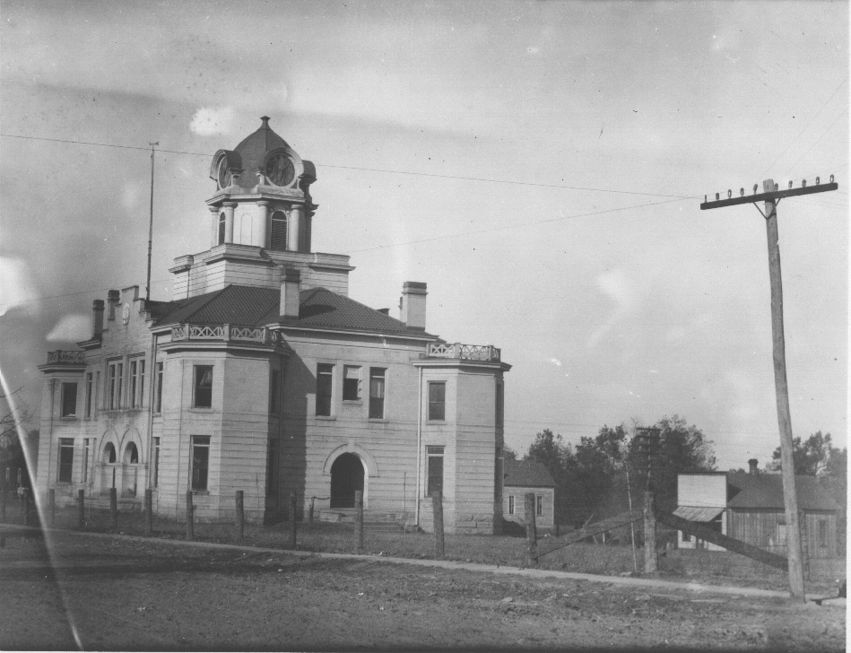 The Cumberland County Courthouse in Crossville, Tennessee, United States, photographed shortly after its construction.